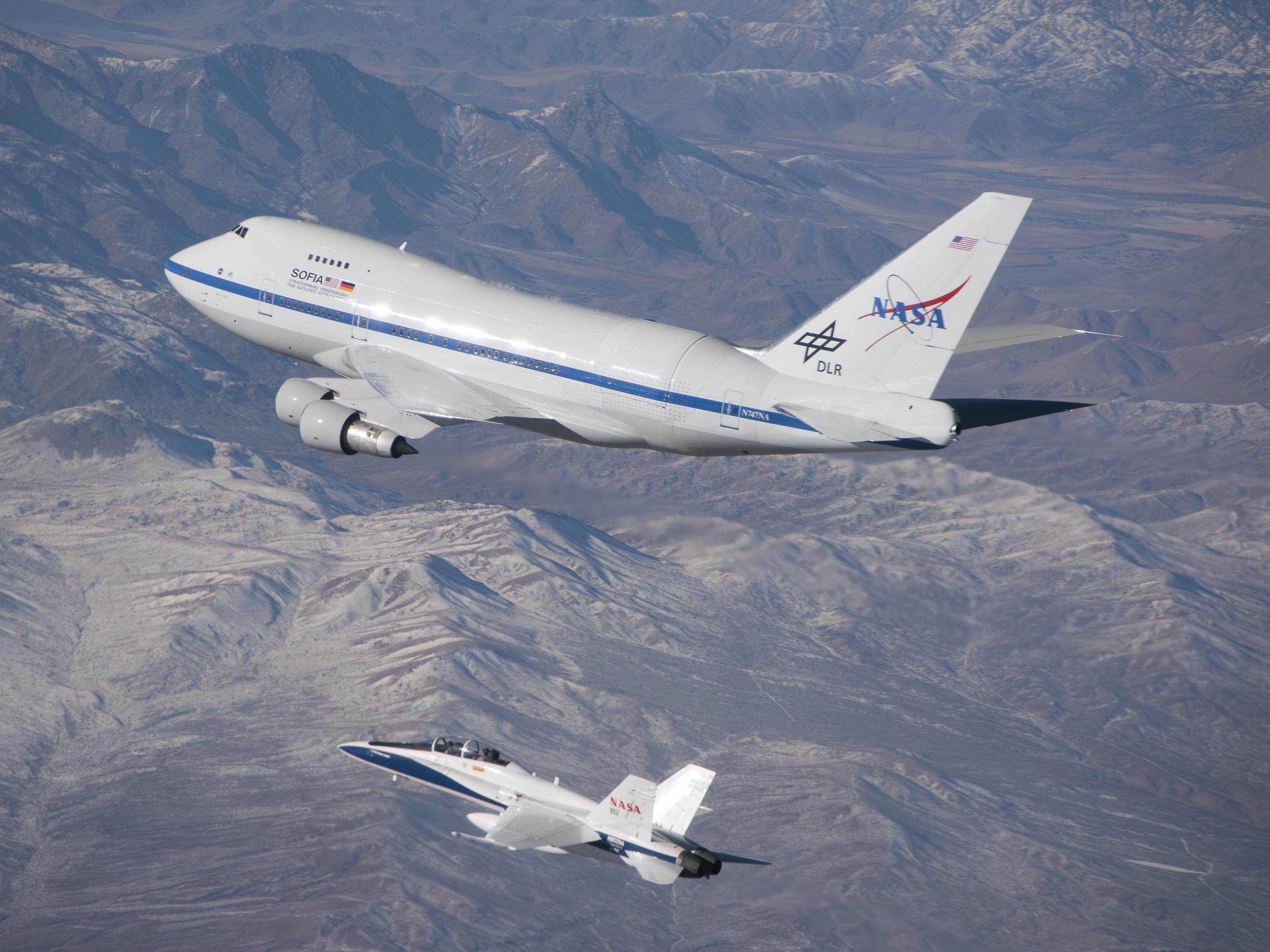 An F/A-18 mission support aircraft shadows NASA's Stratospheric Observatory for Infra-red Astronomy, or SOFIA, 747SP during a functional check flight. The flight included an evaluation of the aircraft's systems, including engines, flight controls and communication.